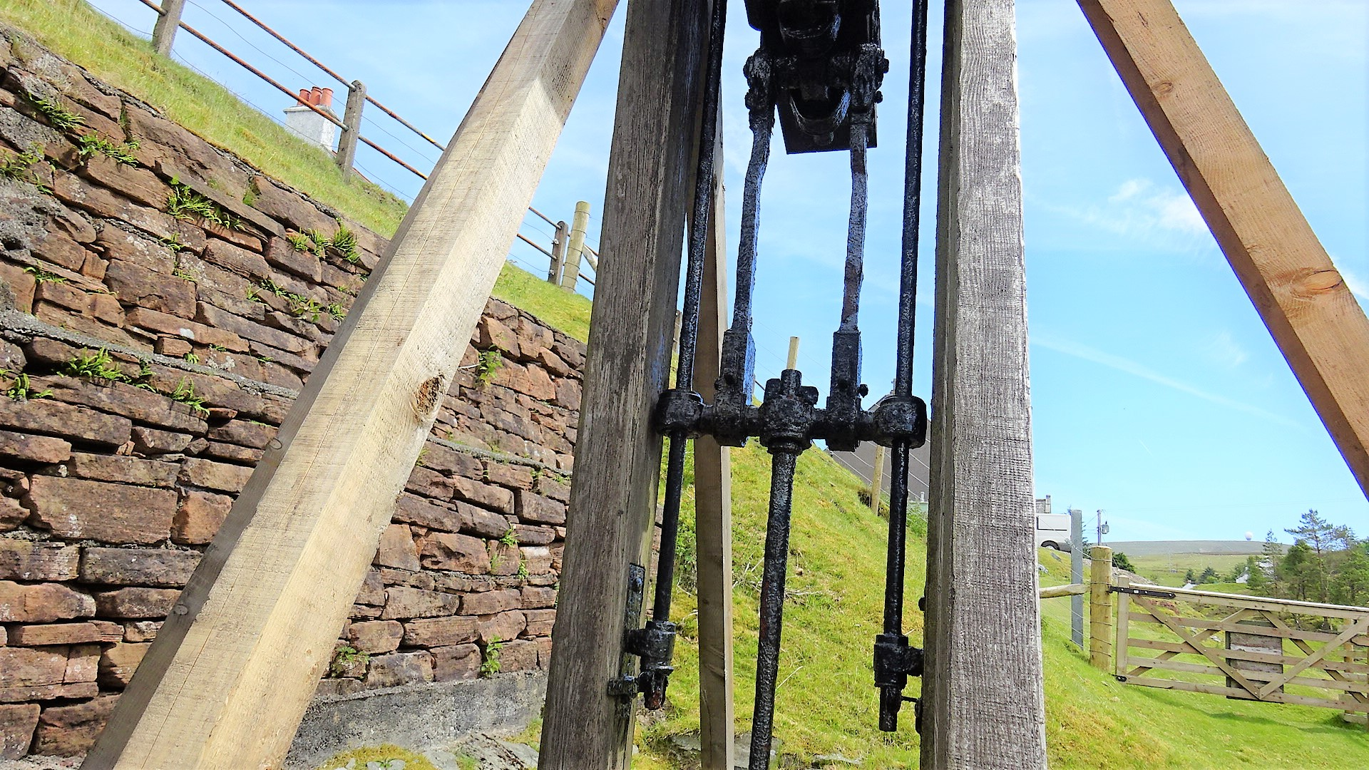 Wanlockhead beam engine, detail of the pumping gear, Scotland. 19th century and last used circa 1901.